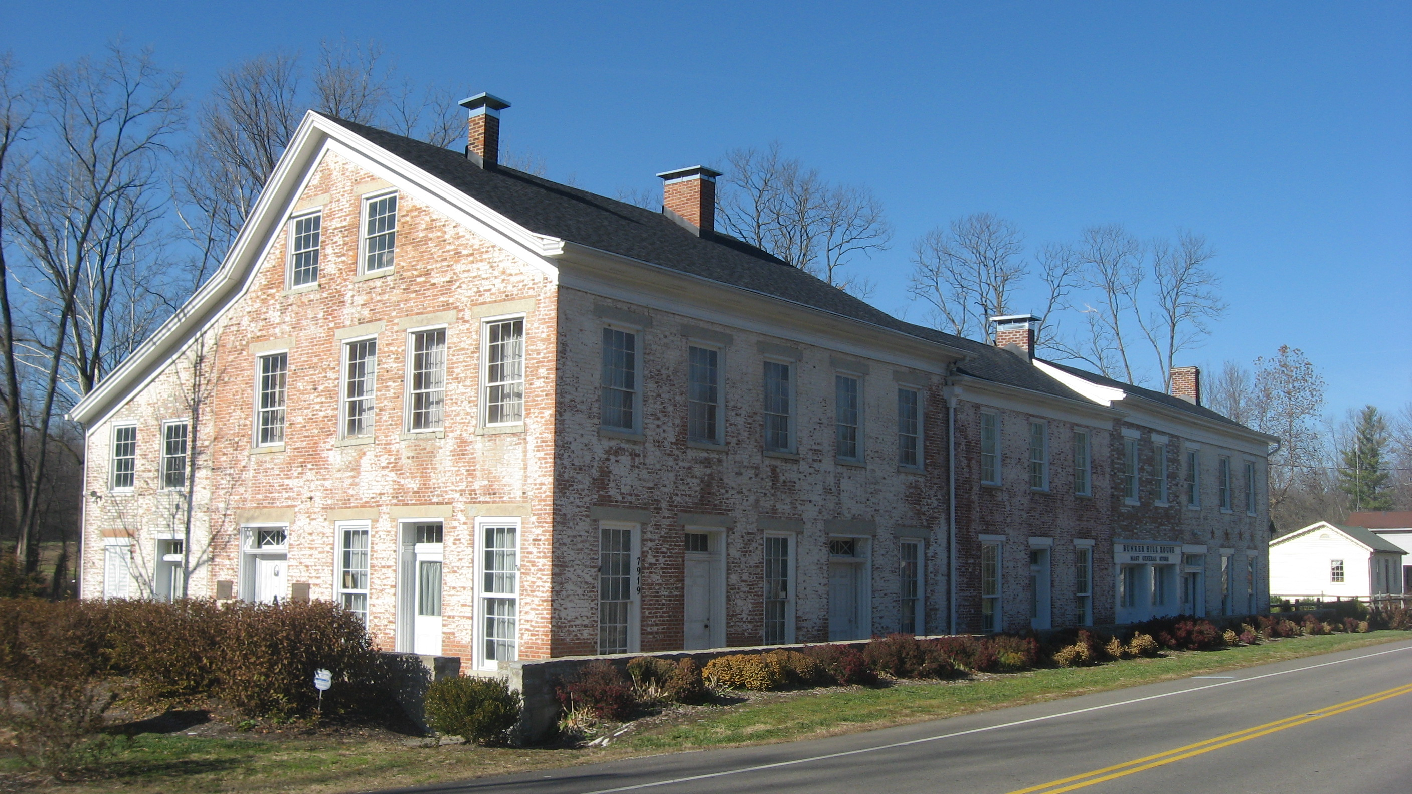 Southern side and front of the Bunker Hill House, located at 7919 State Route 177 in Fairhaven, Ohio, United States. Built in 1834, it is listed on the National Register of Historic Places.